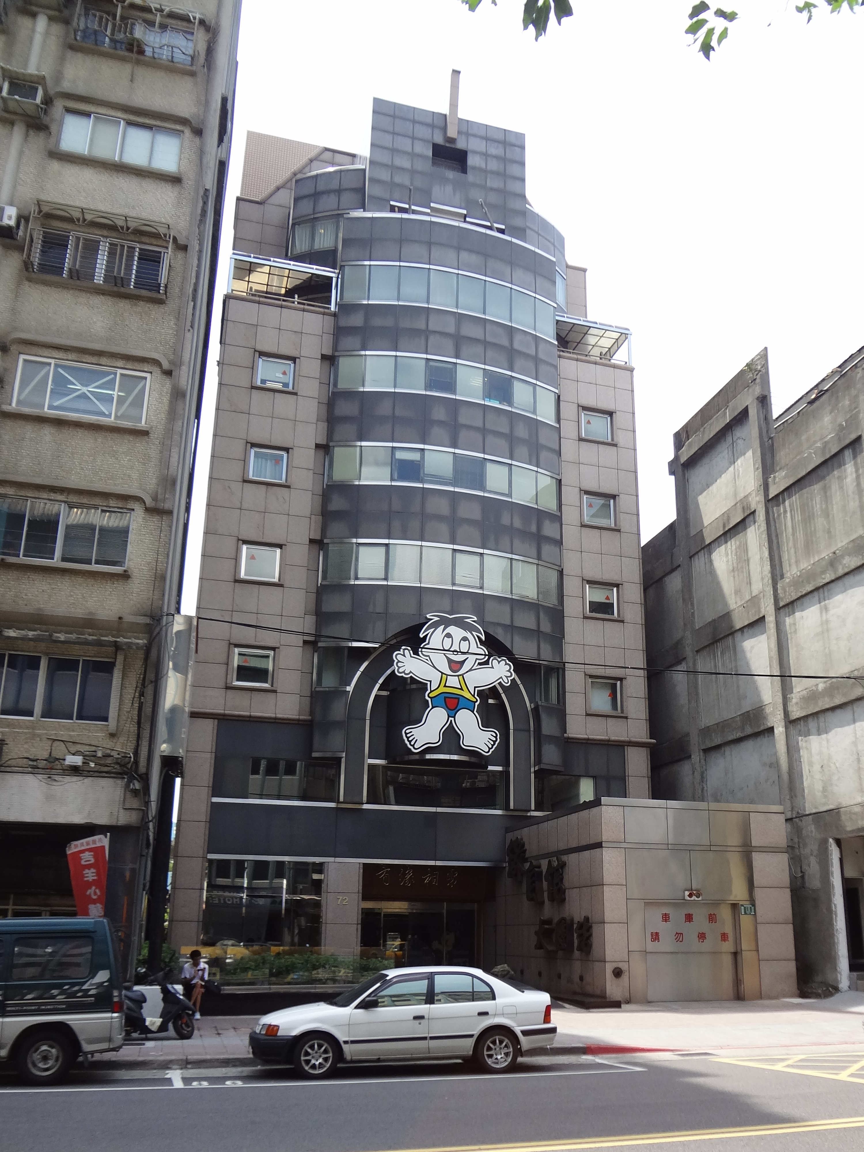 The headquarters of I Lan Foods Industrial Co., Ltd. Address: No.72, Xining North Road, Datong District, Taipei City.